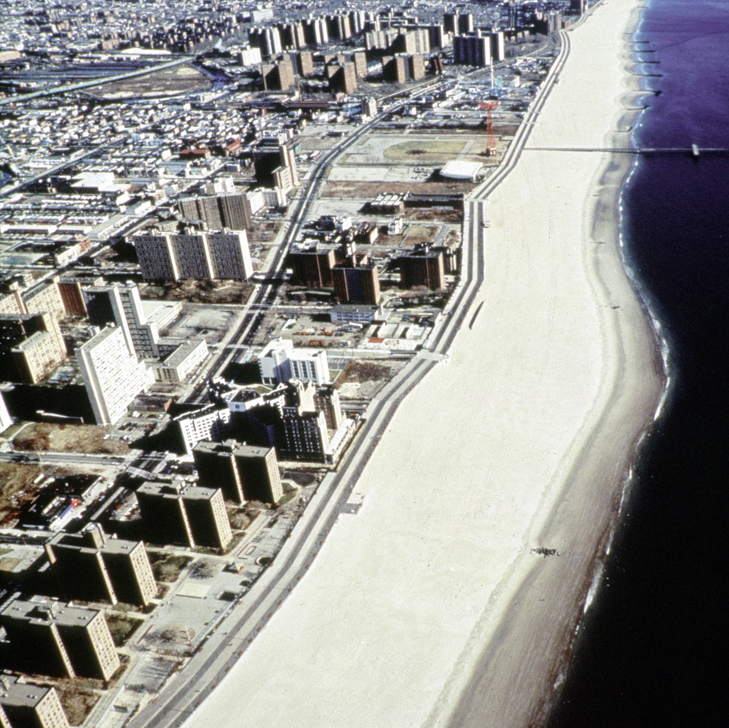 Aerial view of the oceanfront of Coney Island, Brooklyn, New York, USA. The photograph appears to be taken from the vicinity of West 32nd Street, looking east. The view extends a short distance beyond Asser Levy Park.